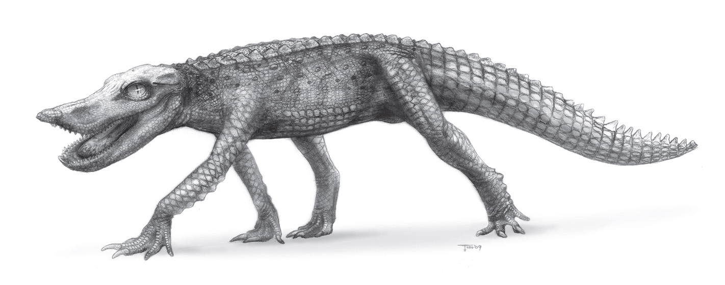 Flesh reconstruction of the crocodyliform Anatosuchus minor.